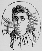 Mrs. Nicholas "Nancy Louise" Creede